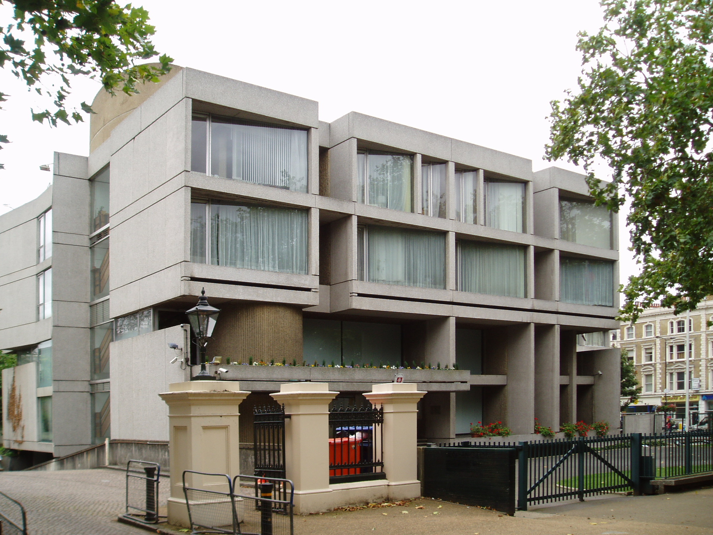 The former Czechoslovakian Embassy (1968-9) by J. Sramek, J. Bocan and K. Stepanski, 26 Kensington Palace Gardens, London